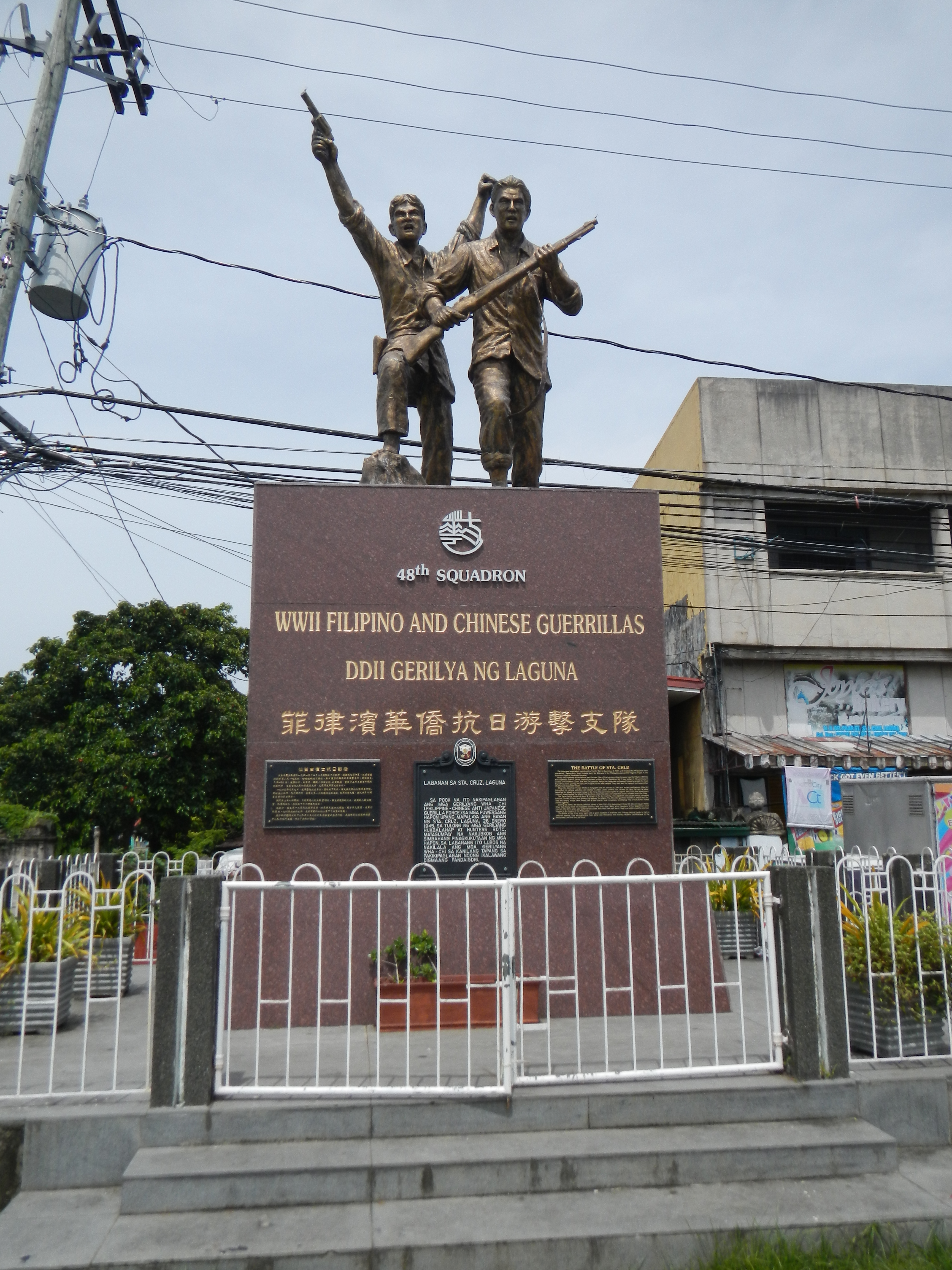 Battle of Santa Cruz (1899)[1] was a battle fought in the early stages of the Philippine-American War during General Henry W. Lawton's [2] Laguna de Bay Campaign.[3] - -- Santa Cruz, Laguna[4] (a first class urban municipality in the province of Laguna,[5]Philippines, the capital town of the province of Laguna, latest census, it has a population of 101,914 people in 19,627 households, situated on the banks of the Santa Cruz River[6] which flows into the eastern part of Laguna de Bay[7] politically subdivided into 26 barangays.Website [8] Coordinates: 14°15'8"N 121°24'15"E)